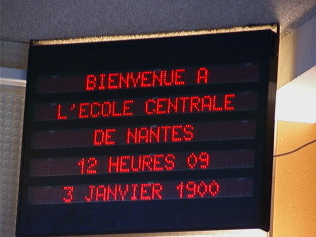 Year 2000 Bug： the sign indicates January 1900 instead of January 2000